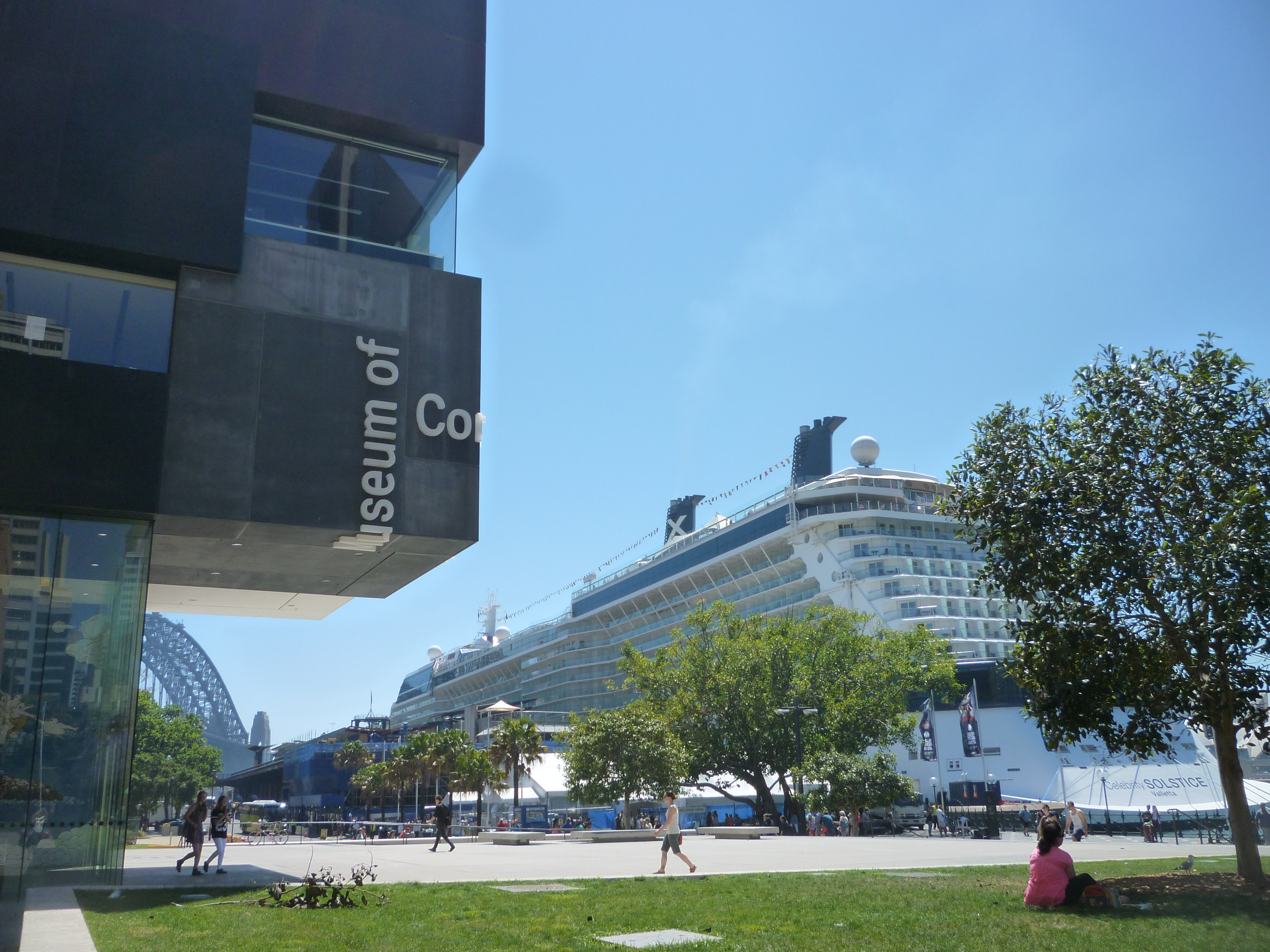 Museum of Contemporary Art (MCA) and cruise ship (foreground); Harbour Bridge (background)